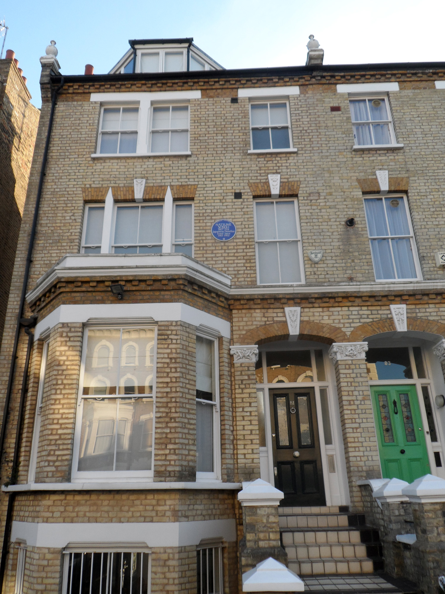 NATSUME SOSEKI 1867-1916 Japanese Novelist lived here 1901-1902